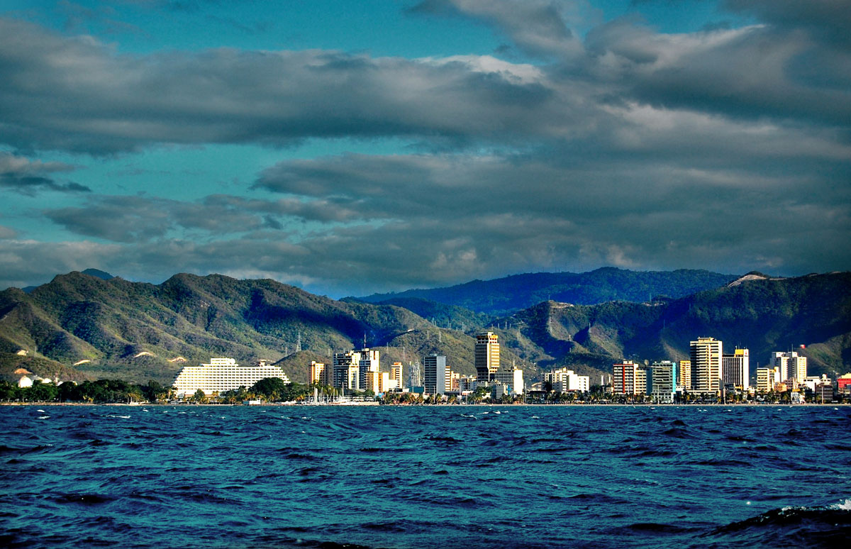 Puerto La Cruz skyline, Anzoátegui, Venezuela